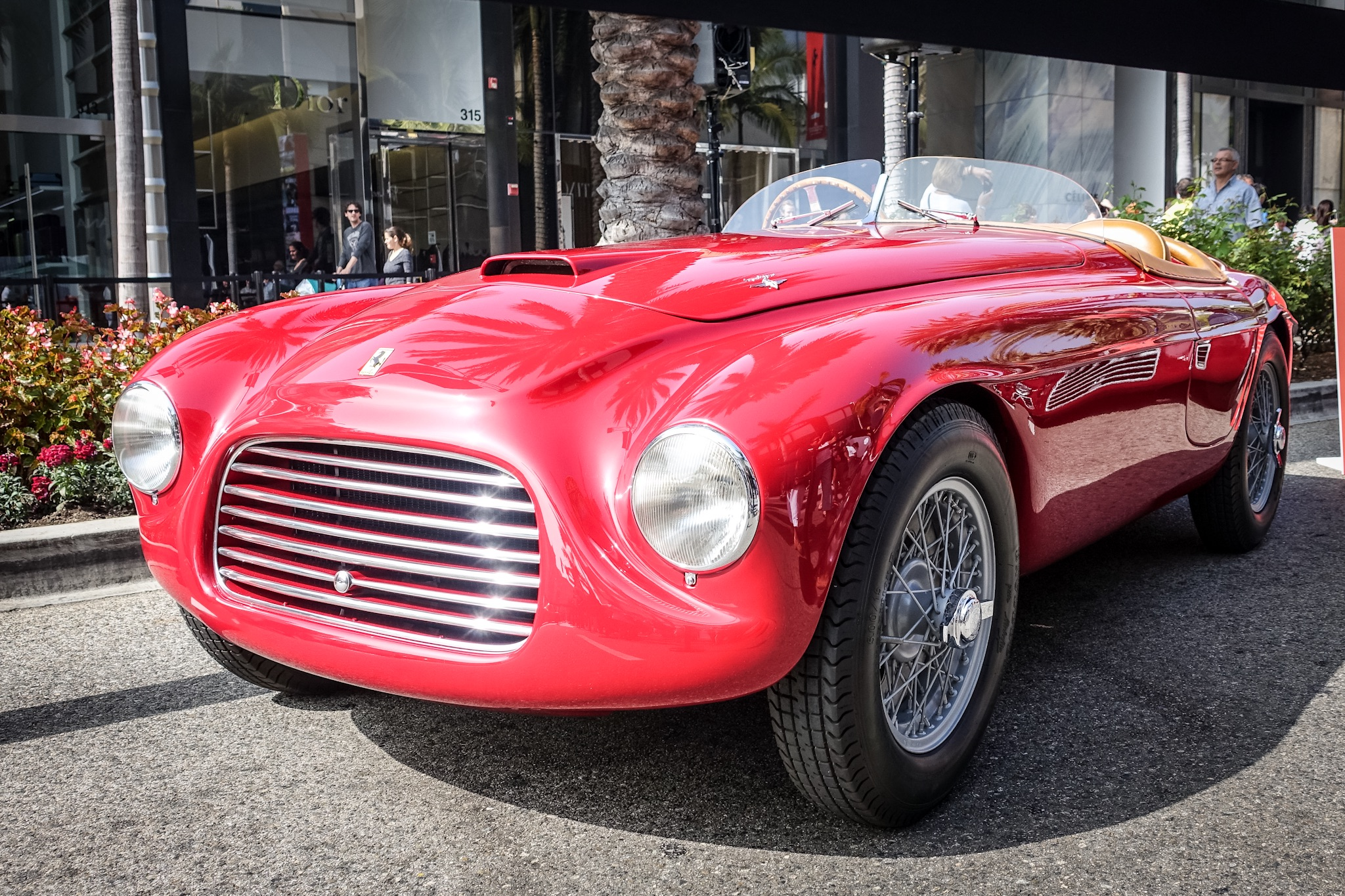 After the very early 166 Spyder Corsa, which use cycle-fendered bodywork, Carozzeria Touring designed a small, taut streamlined body for the 166 chassis. This car was dubbed the "Barchetta", or "little boat"# Tommy Lee, a wealthy West Coast automotive enthusiast who had owned a number of exotic European cars, ordered this Barchetta which had been shown at the Turin Auto Show in 1948# This was the first Ferrari in the United States!